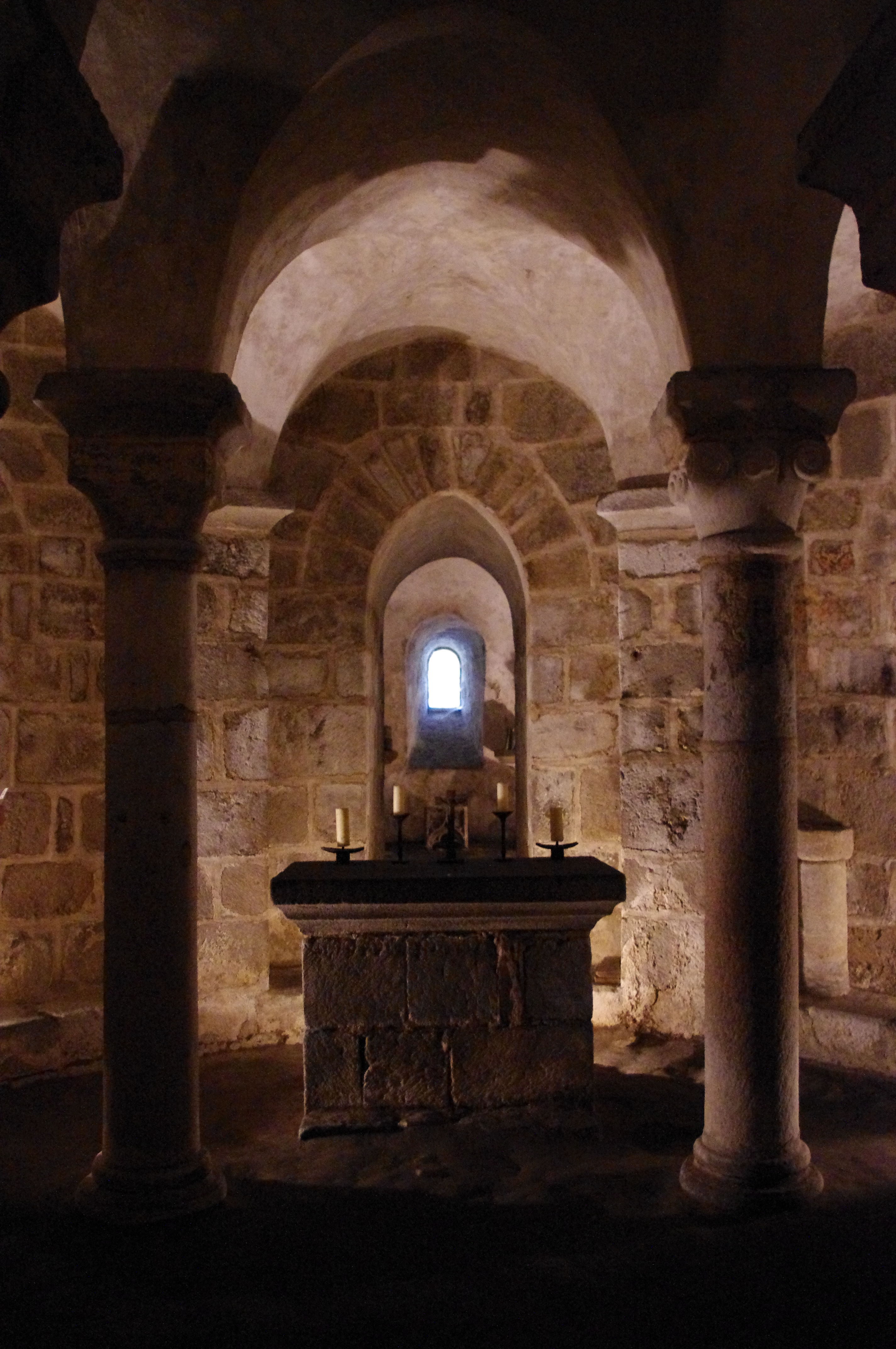 Crypt of the collegiate church of Saint Peter, in le Dorat (Haute Vienne, France). 11th century.